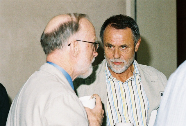 FLoC 2006: C. A. R. Hoare and Wolfgang Bibel